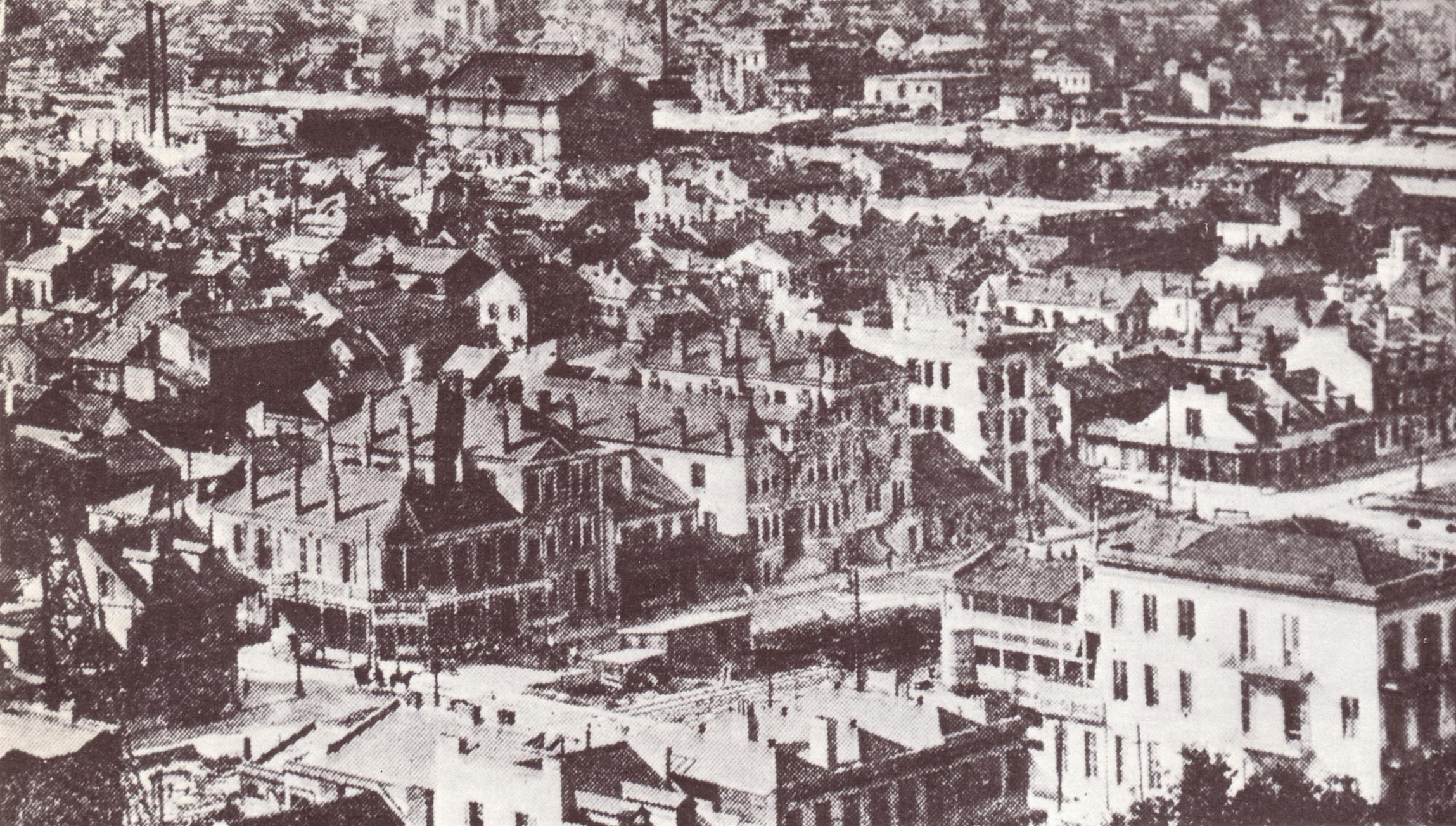 New Orleans: View of "Storyville" Red light district at the start of the 20th century. Basin Street is the first street seen. Called an "Aerial view", but probably actually taken from roof of the Grunewald Hotel.